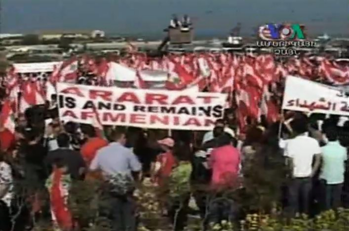 Lebanese Armenians holding a poster during Turkish PM Recep Tayyip Erdoğan visit to Beirut on November 25, 2010